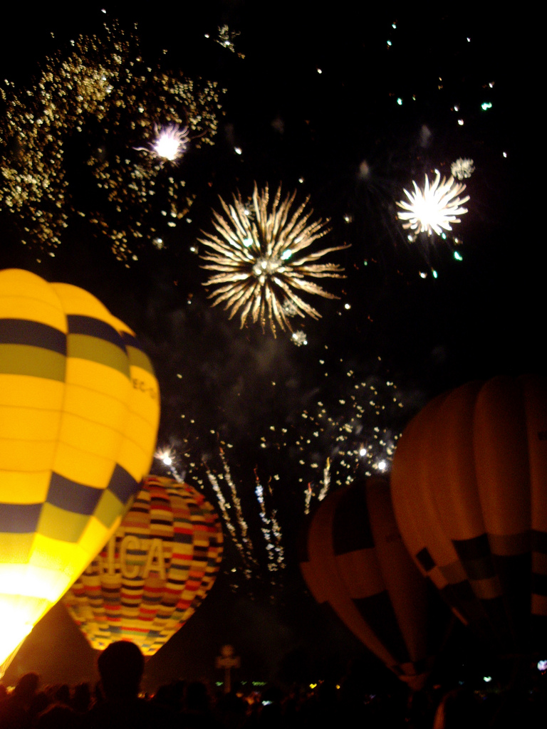 "Night Glow" plus fireworks, European Balloon Festival 2008 in Igualada.